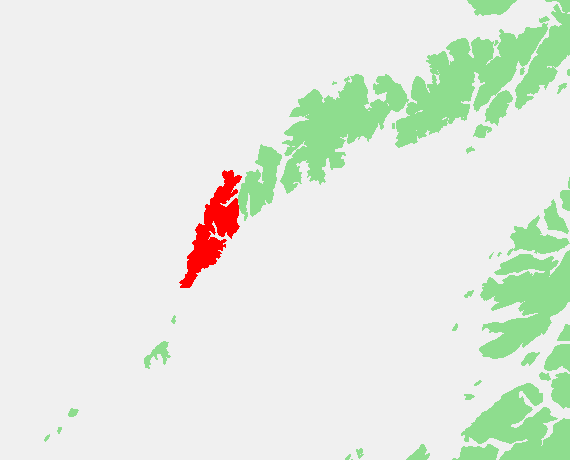 Island of Norway - Moskenesoy.PNG